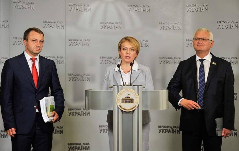 Taras Kremin, Liliya Grynevych, Olexandr Spivakovsky.